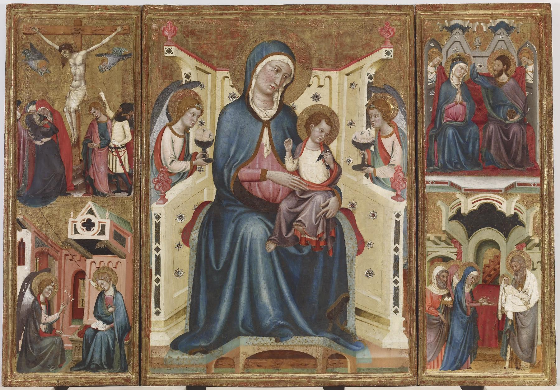 The central scene of this altarpiece depicts the enthroned Madonna and Child flanked by angels. The Christ Child holds a tiny European goldfinch, a symbol of his resurrection. The bird is tethered, a reminder that, in the 14th century, such animals were kept as pets by children. Angels present Mary with chalices of white flowers, alluding to her purity. On the left appear the Annunciation and the Crucifixion, while Christ's Presentation in the Temple and the Coronation of the Virgin are on the right. The delicate punch-work decoration and the slender, graceful figures reveal the influence of Sienese painting. Catalan artists learned the style and techniques of Italian painting by examining imported Italian works in local churches; some even traveled to Italy to perfect their craft.